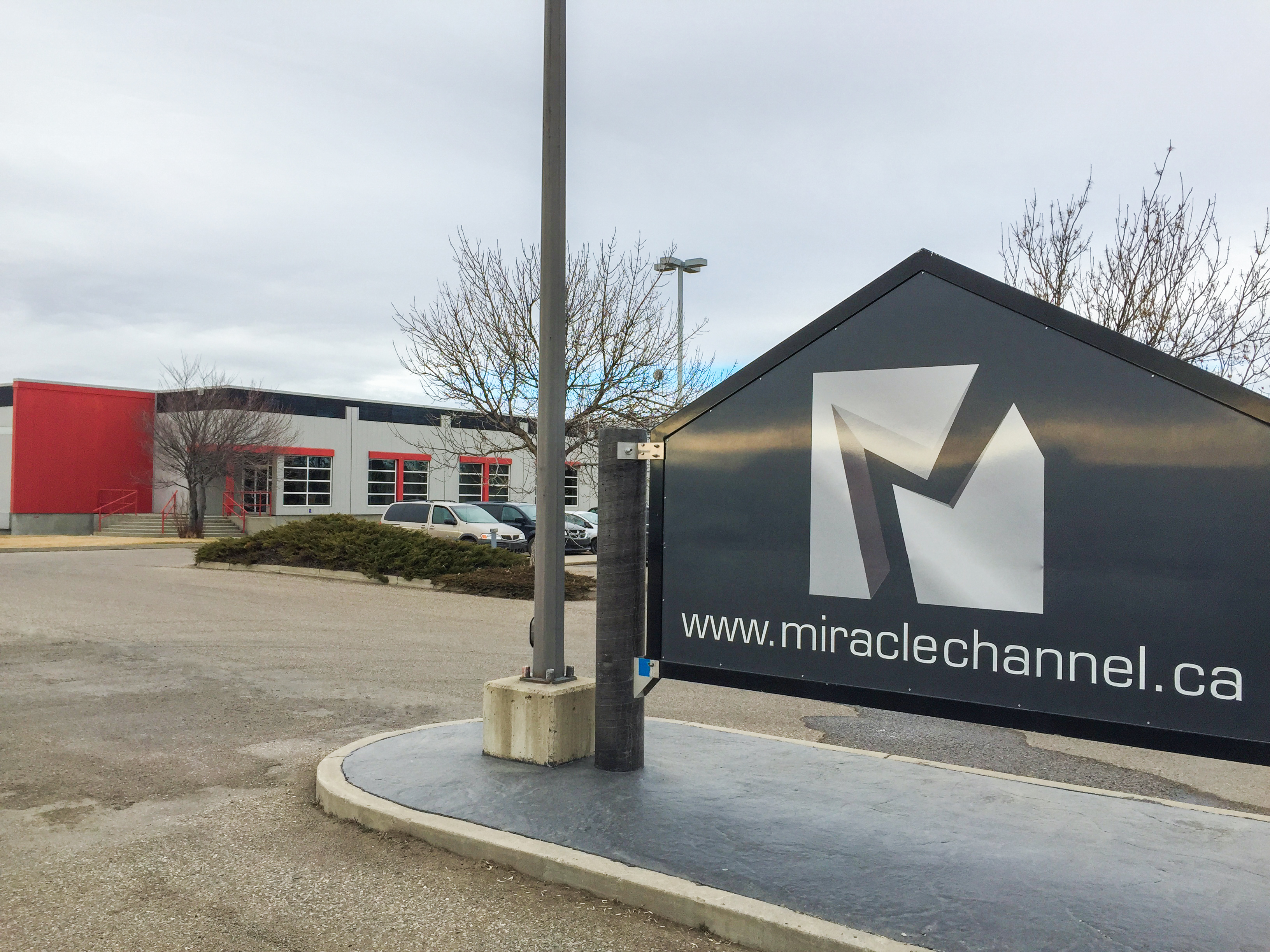 Photo of outside of Miracle Channel building, including the sign